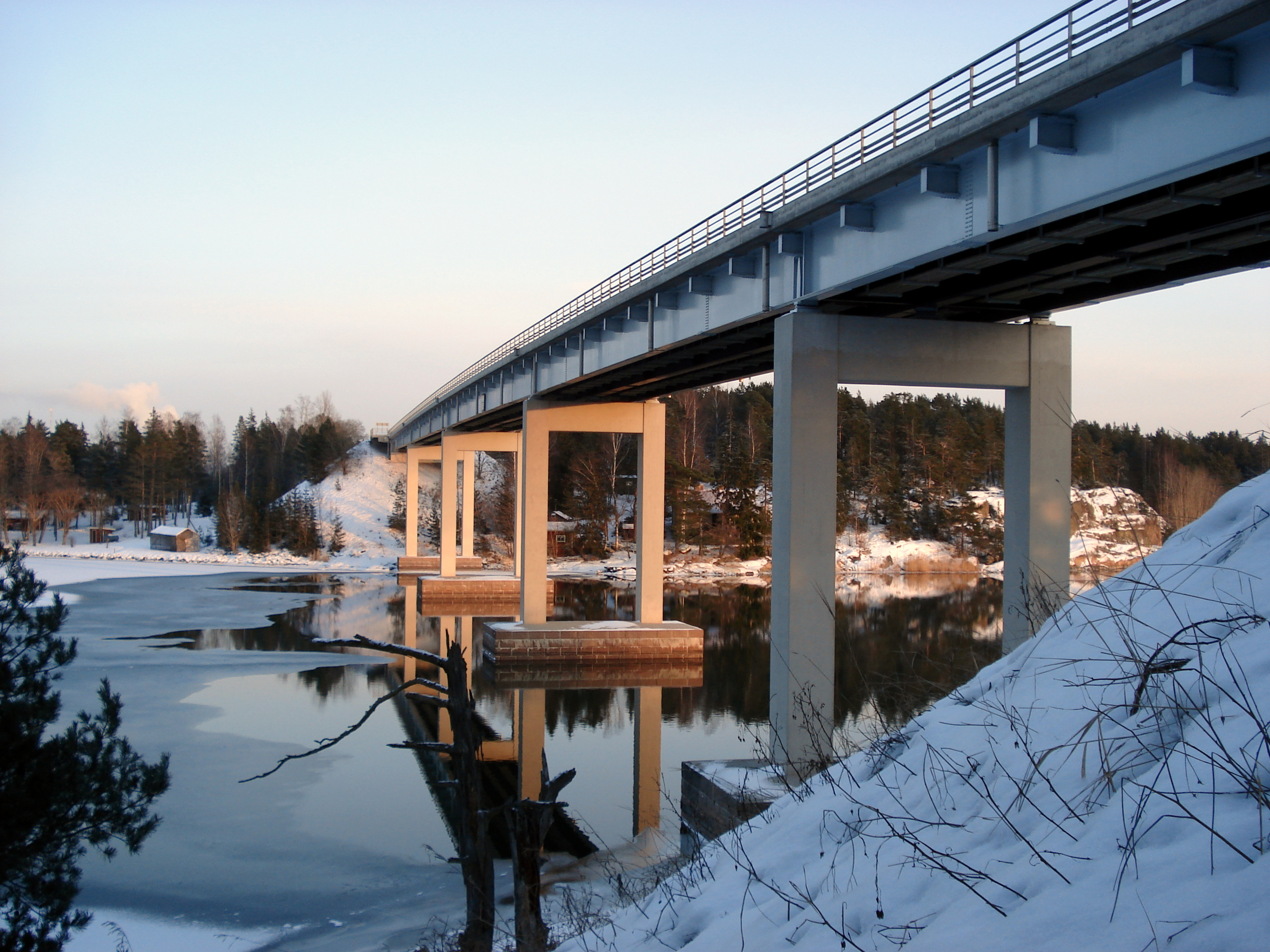 Särkänsalmen bridge at Naantali, Finland.